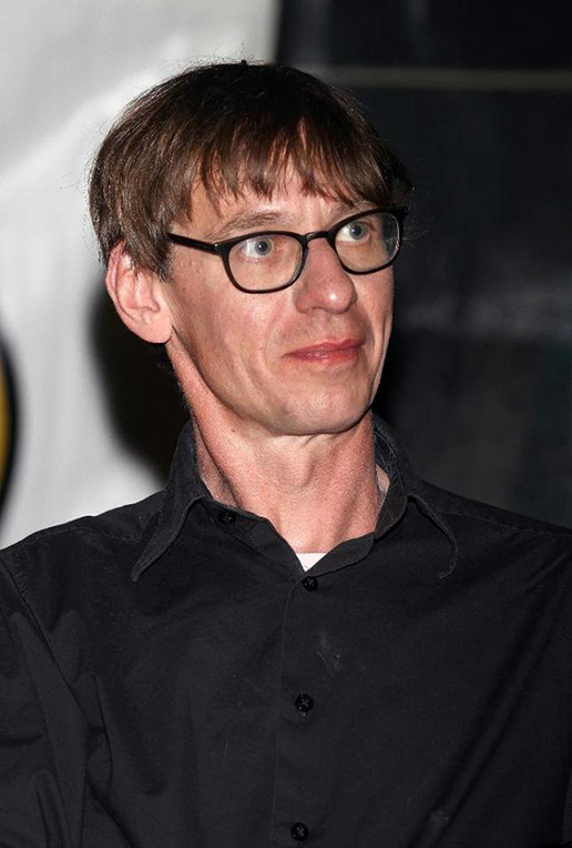 Christian "Flake" Lorenz from Rammstein.